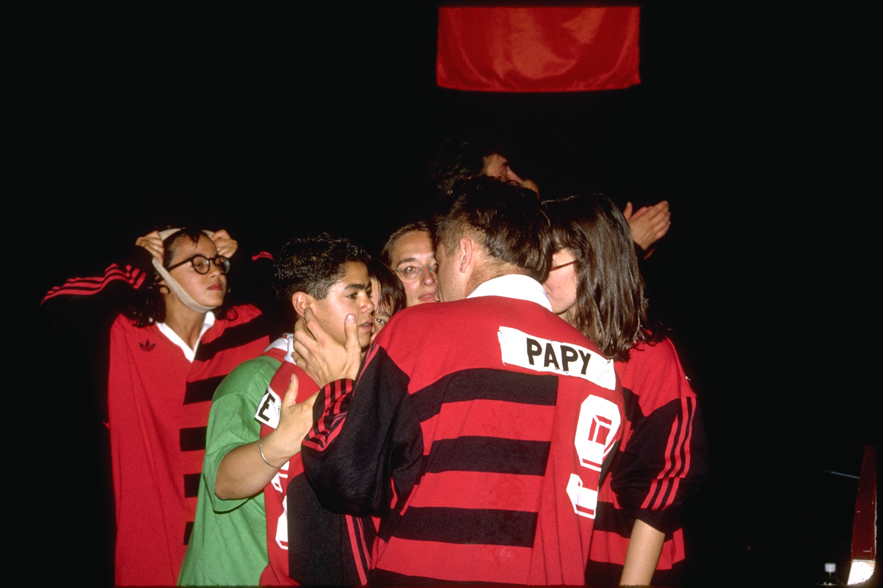 jamel impro